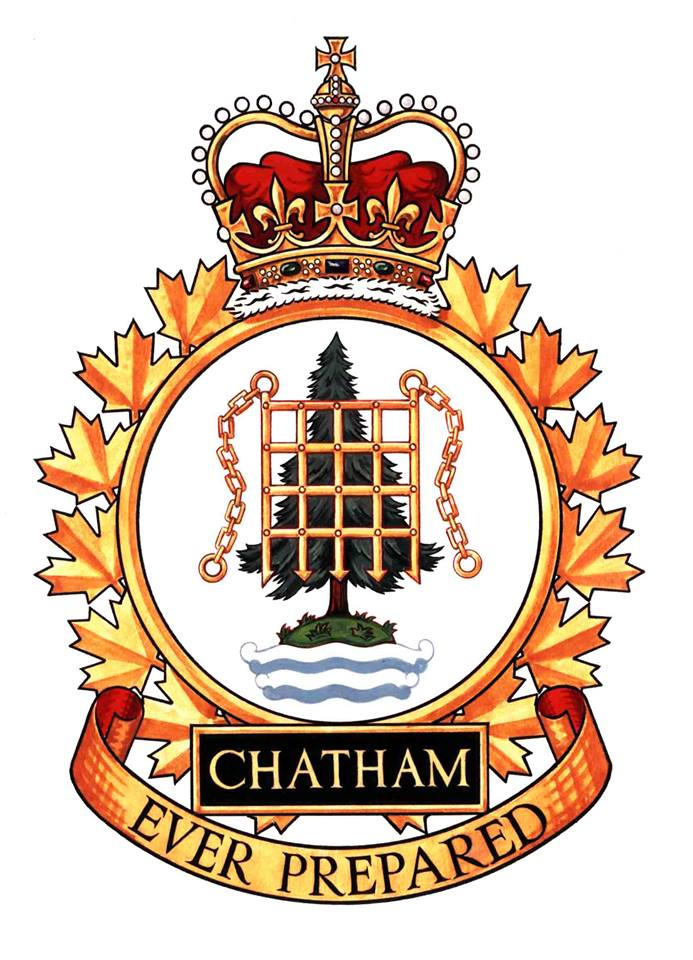 CFB Chatham emblem New Brunswick, Canada